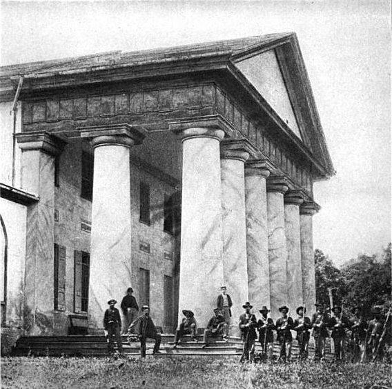 Photograph of Arlington House during the American Civil War, with Union Soldiers.